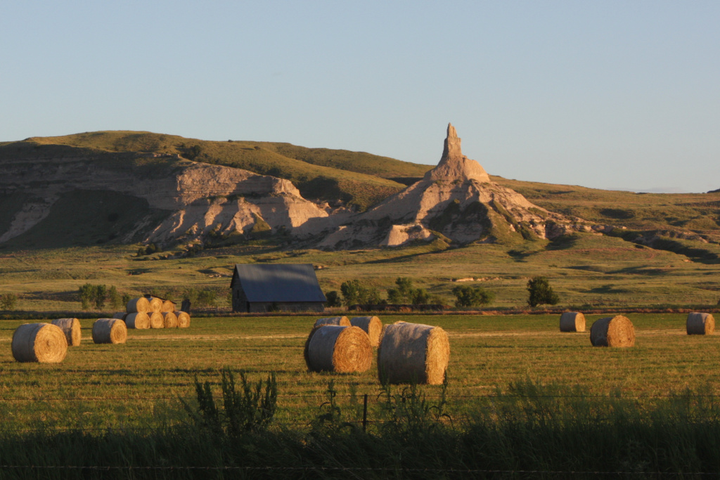 Chimney Rock National Historic Site, Morrill County, Nebraska, USA